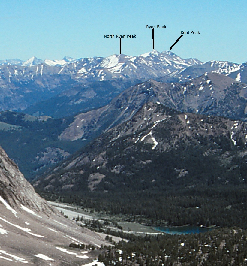 Kent Peak, Ryan Peak, and North Ryan Peak in the Boulder Mountains of Idaho labelled. This picture is an adaptation of File:Castle Peak ID.jpg by Roy Luck.